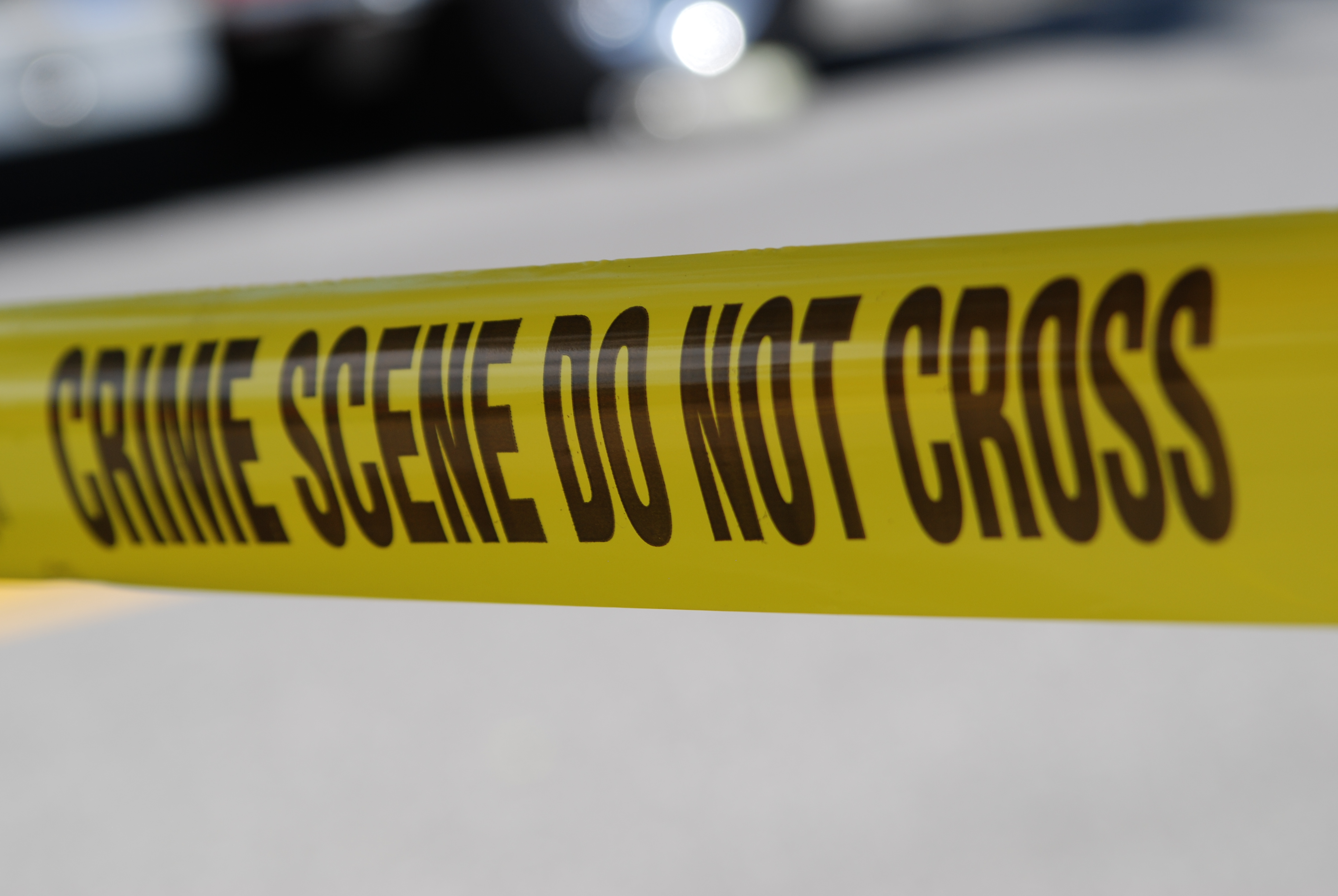 "Crime Scene Do Not Cross" tape